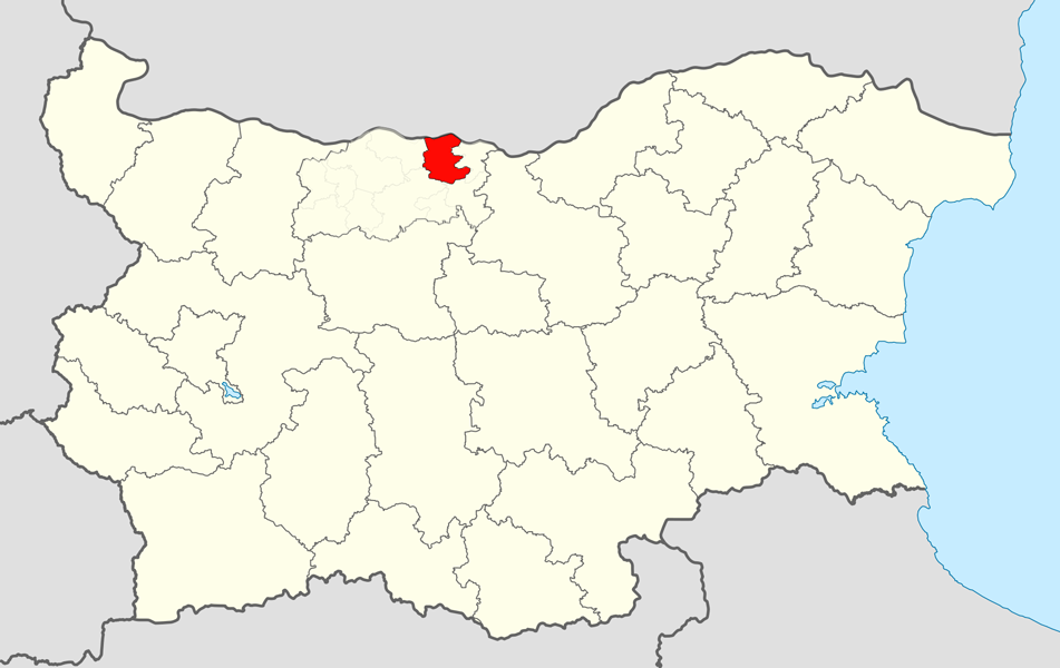 Location map of Nikopol Municipality within Pleven Province, Bulgaria. Equirectangular projection, N/S stretching 130 %. Geographic limits of the map: N: 44.4° N S: 41.1° N W: 22.1° E E: 28.9° E